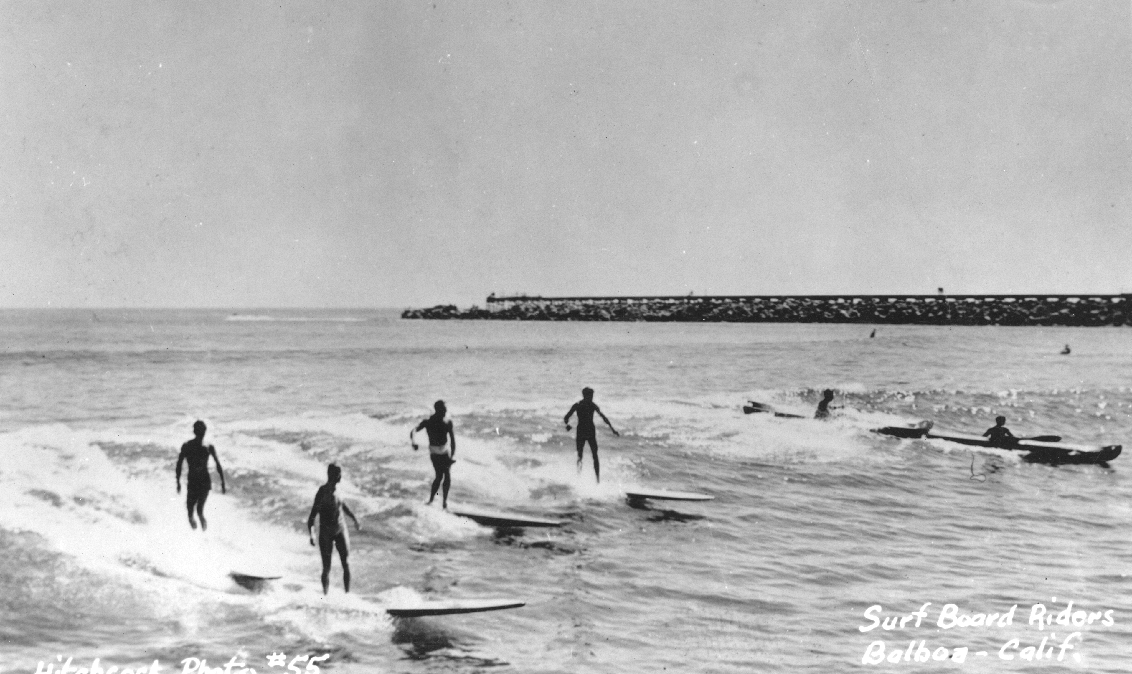 There are no known copyright restrictions on this image. All future uses of this photo should include the courtesy line, "Photo courtesy Orange County Archives." Comments are welcome after reading our Comment Policy. Photo from the Tom Pulley Collection.